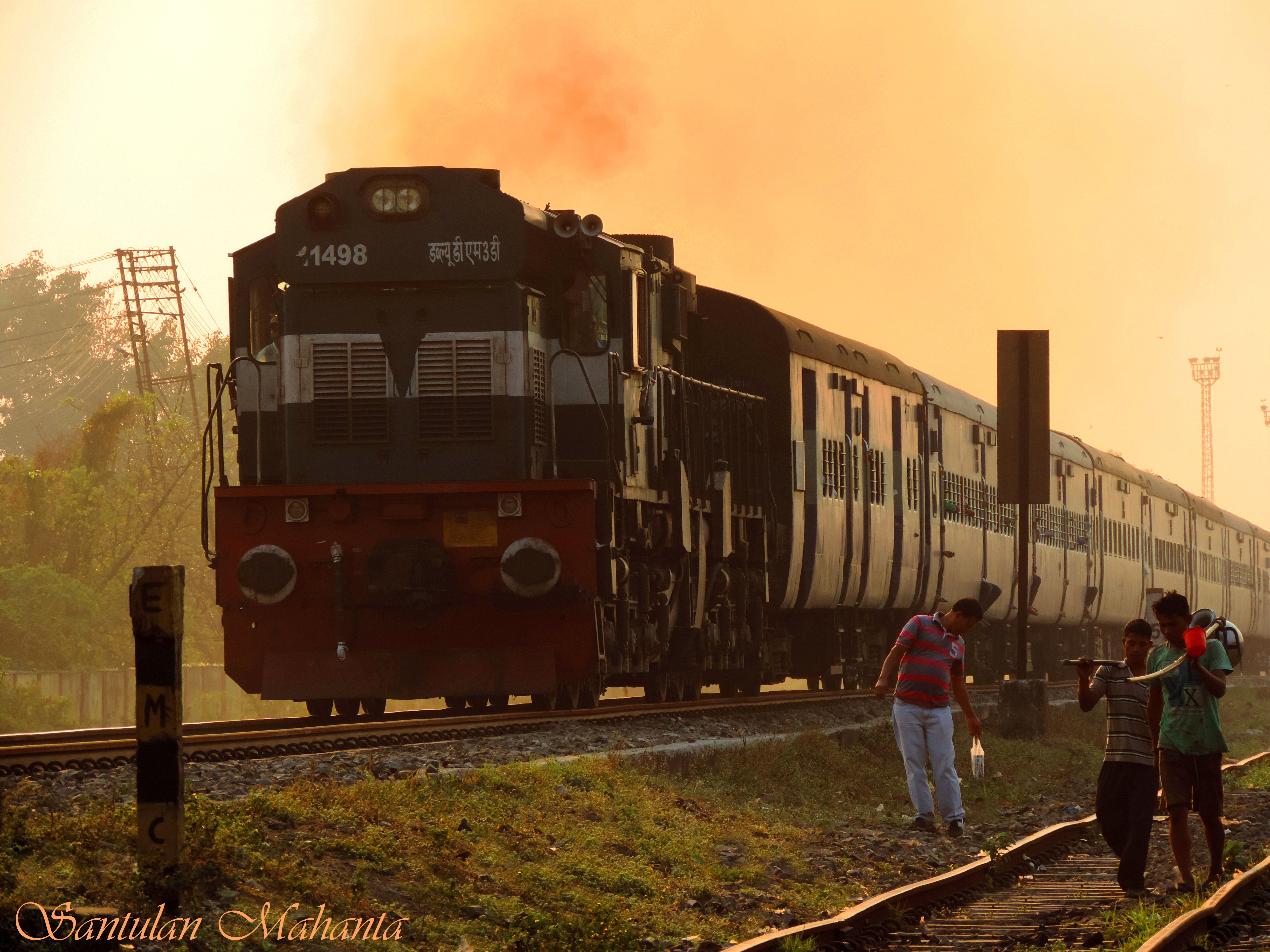 Howrah based WDM3D 11498 blasts in through New Guwahati with 2 hours behind the schedule Kamrup Express in tow